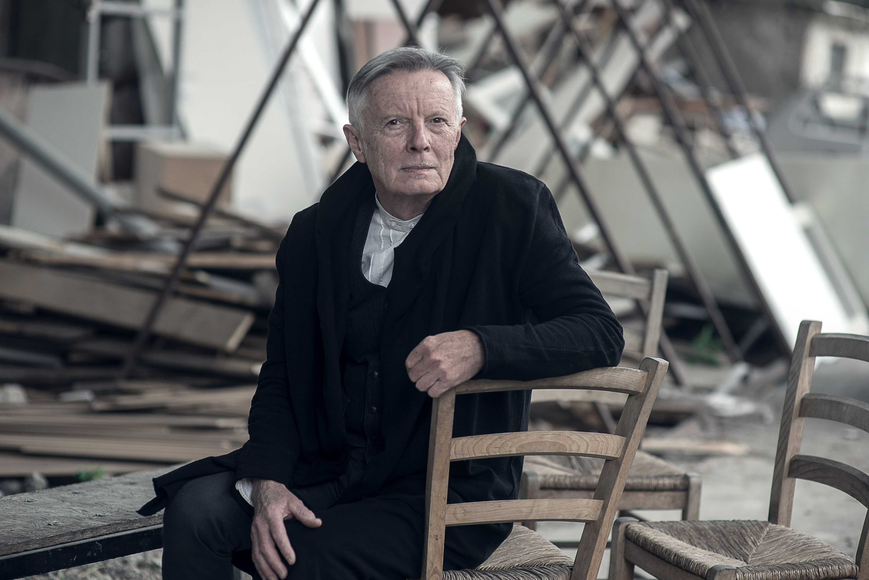 Horváth Károly színművész portréja. Fotó: Köő Adrien